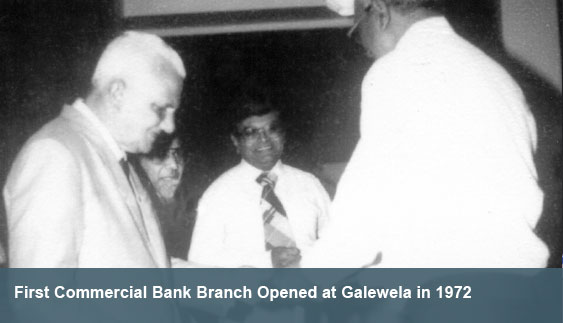 First Commercial Bank Branch Opened at Galewela in 1972